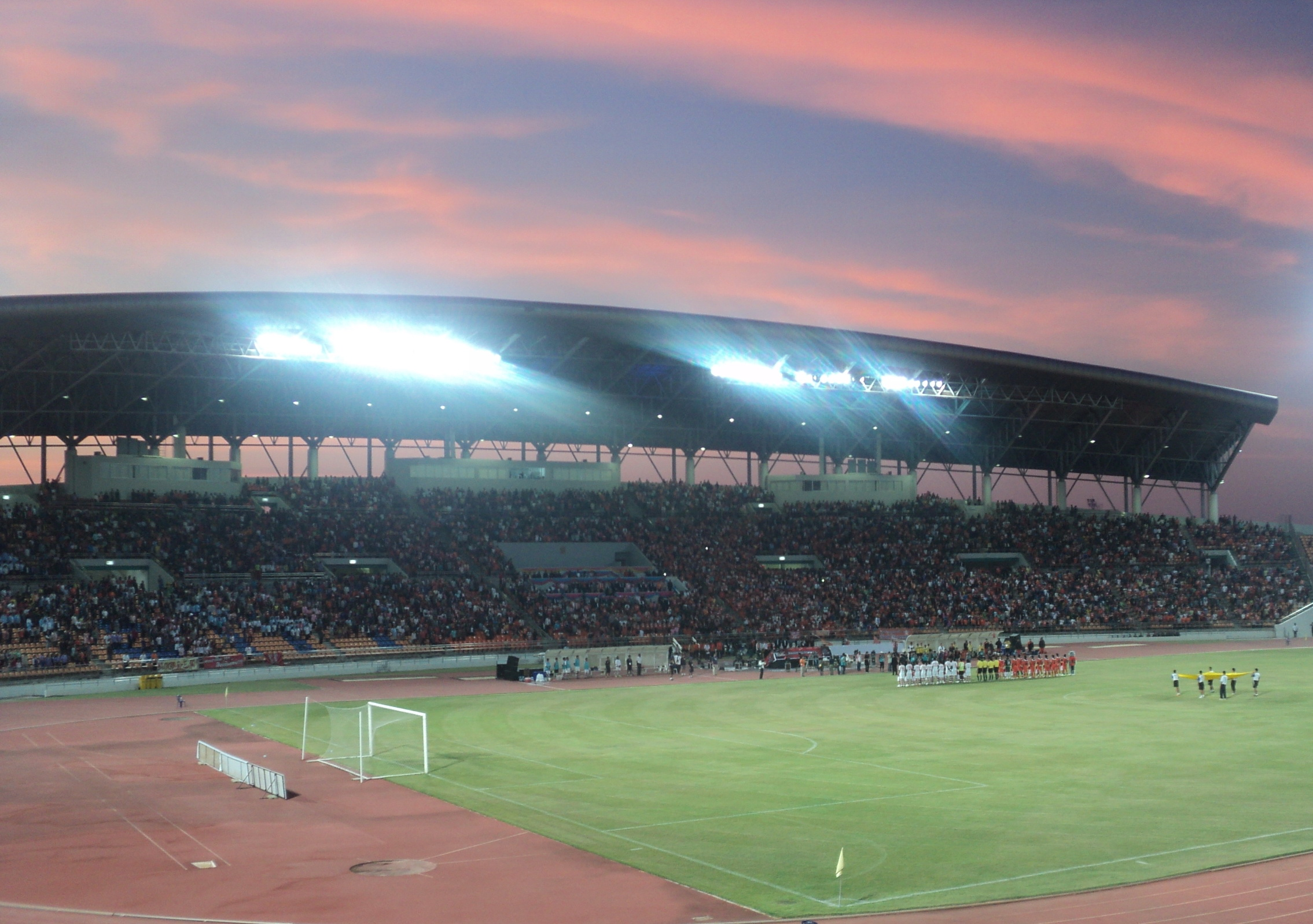 Full main stand at Nakhon Ratchasima F.C v Roiet United, 17/12/11